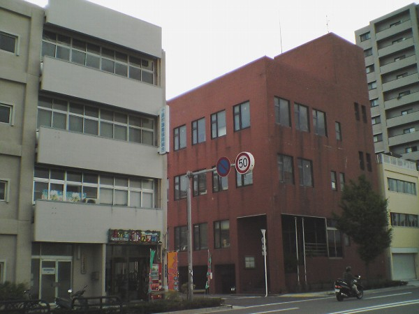 Toshima Village Office in Kagoshima Prefecture, Japan